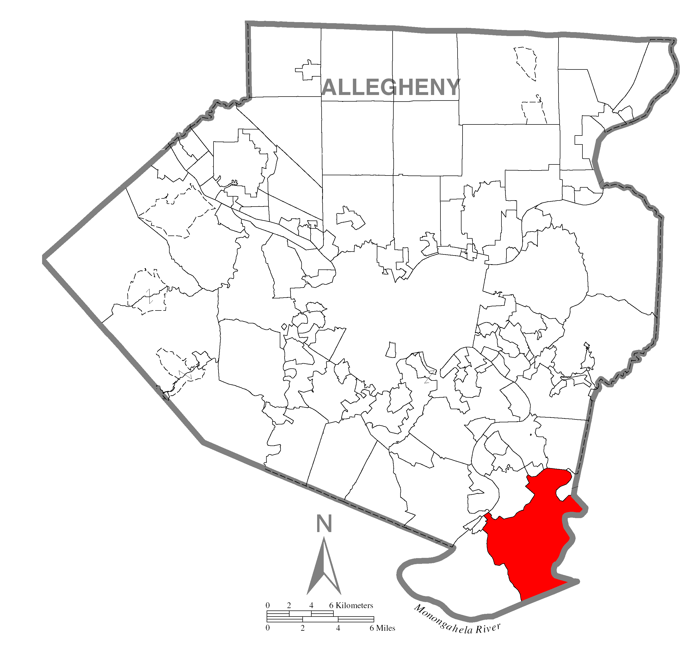 A map of Allegheny County showing Elizabeth Township, Pennsylvania (alternate) highlighted on the map.